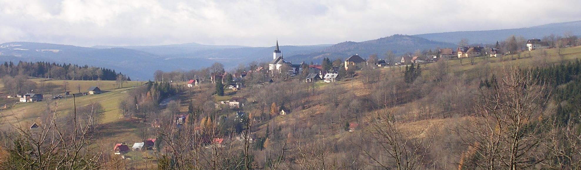 Příchovice, Kořenov, the Czech Republic.